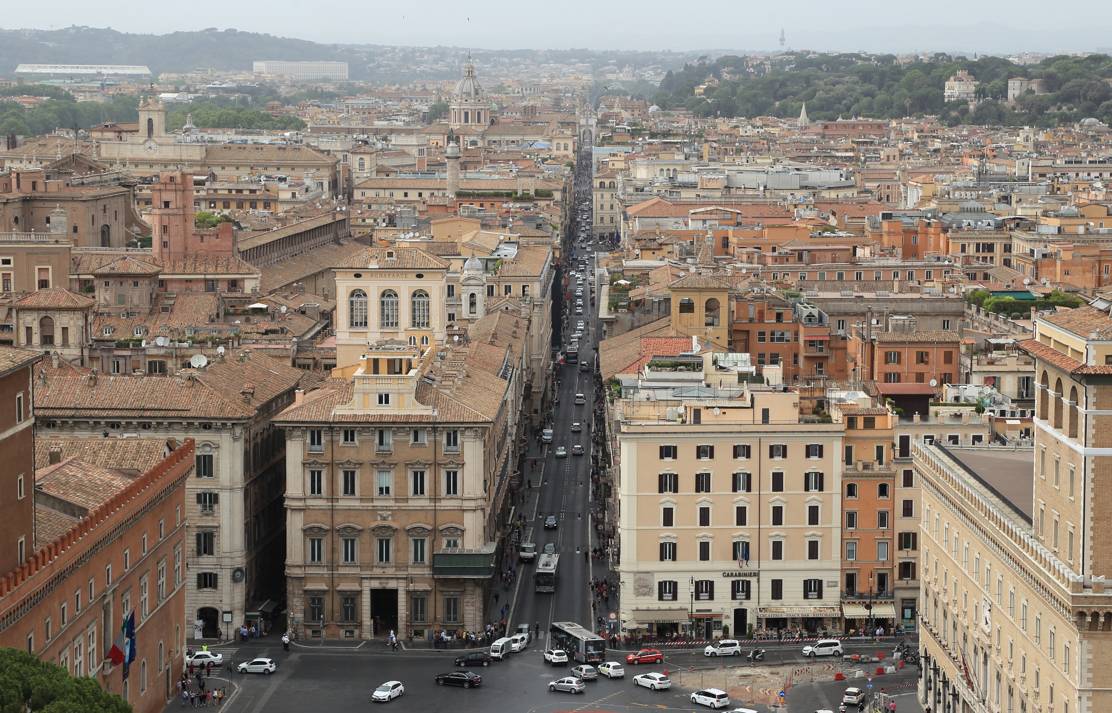 Via del Corso street in Rome.